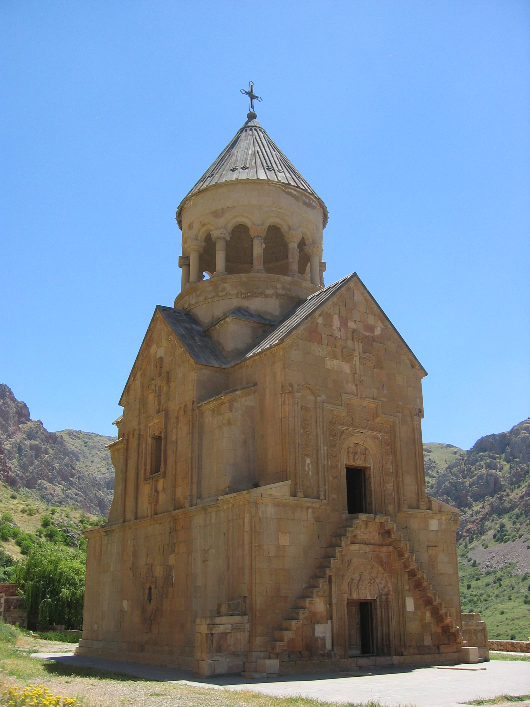 Noravank - 13th Century Armenian Monastery, own work, June 2006